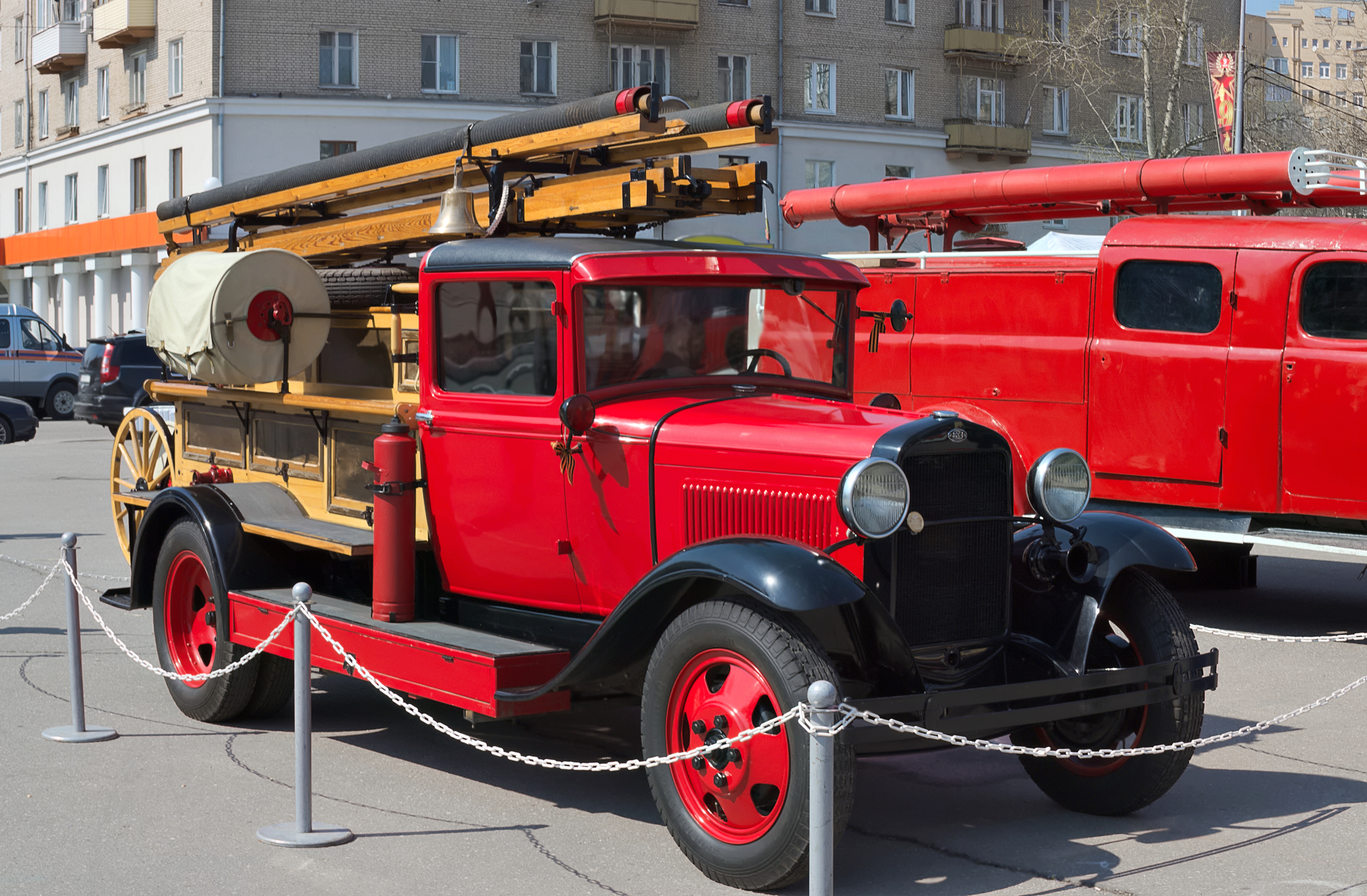 A Soviet PMG-1 fire engine based on a GAZ-AA truck (production: 1932—1941). The photo was taken in Korolyov, Moscow Oblast, at an exhibition of fire-fighting vehicles devoted to the Day of the Fire Rescue Service of Russia. A photo from the user collection Machinery.